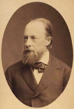 Johan Victorinus Pingel (1834-1919), Danish politician, MP, educator, and geologist